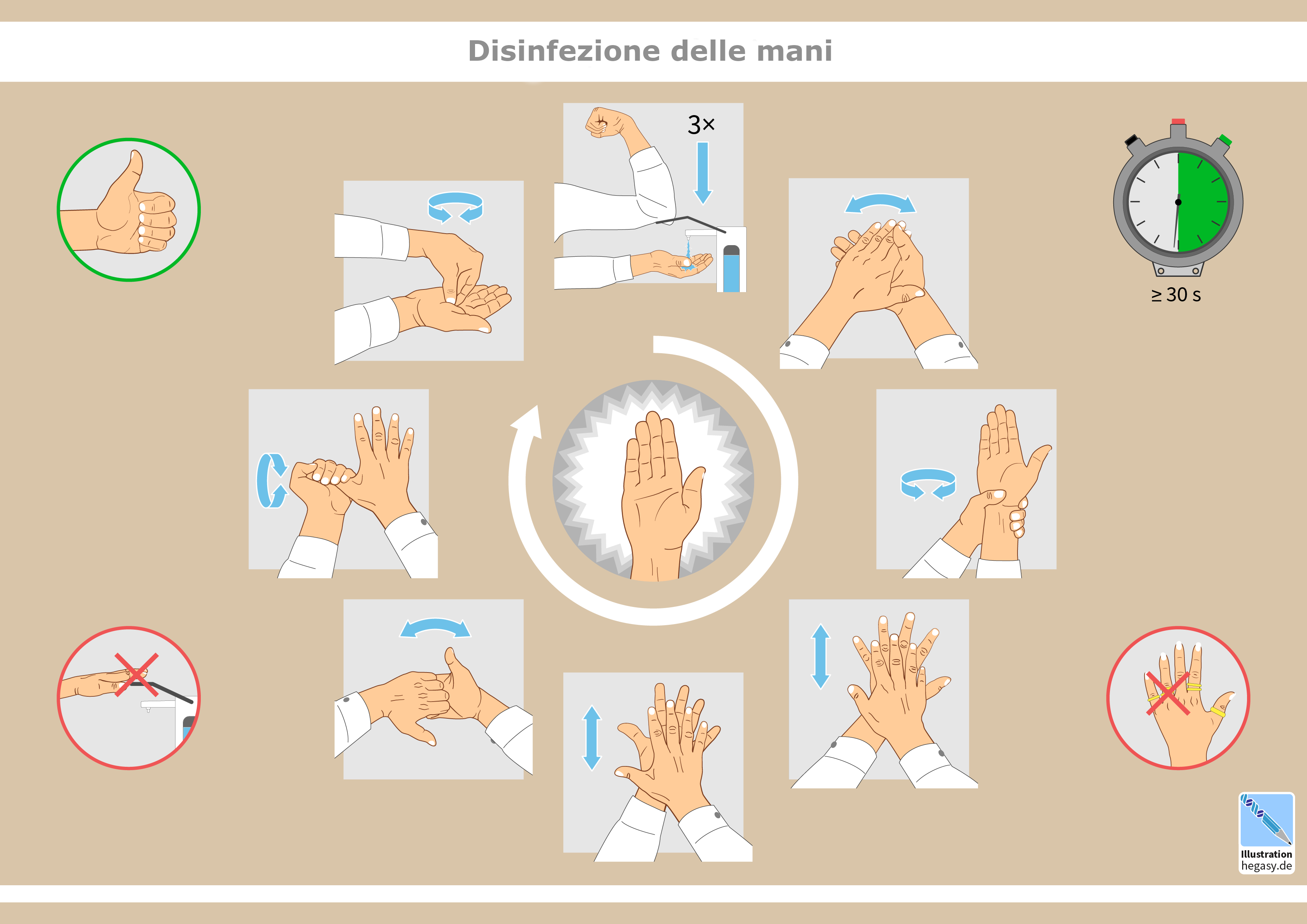 This image was improved or created by the Wikigraphists of the Graphic Lab (it). You can propose images to clean up, improve, create or translate as well.